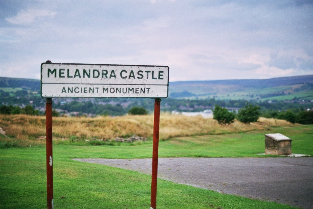 Ardotalia (also known as Melandra, or Melandra Castle) is a Roman fort in Gamesley, near Glossop in Derbyshire, England (grid reference SK00919505).[1] Ardotalia was constructed by Cohors Primae Frisiavonum—The First Cohort of Frisiavones.[2] Evidence for the existence of this unit exists not only from the building stone found at the site but also from various diplomas and other Roman writings.[2] This unit would have had around a thousand men, including the specialist craftsmen needed to perform the skilled work of building the fort.